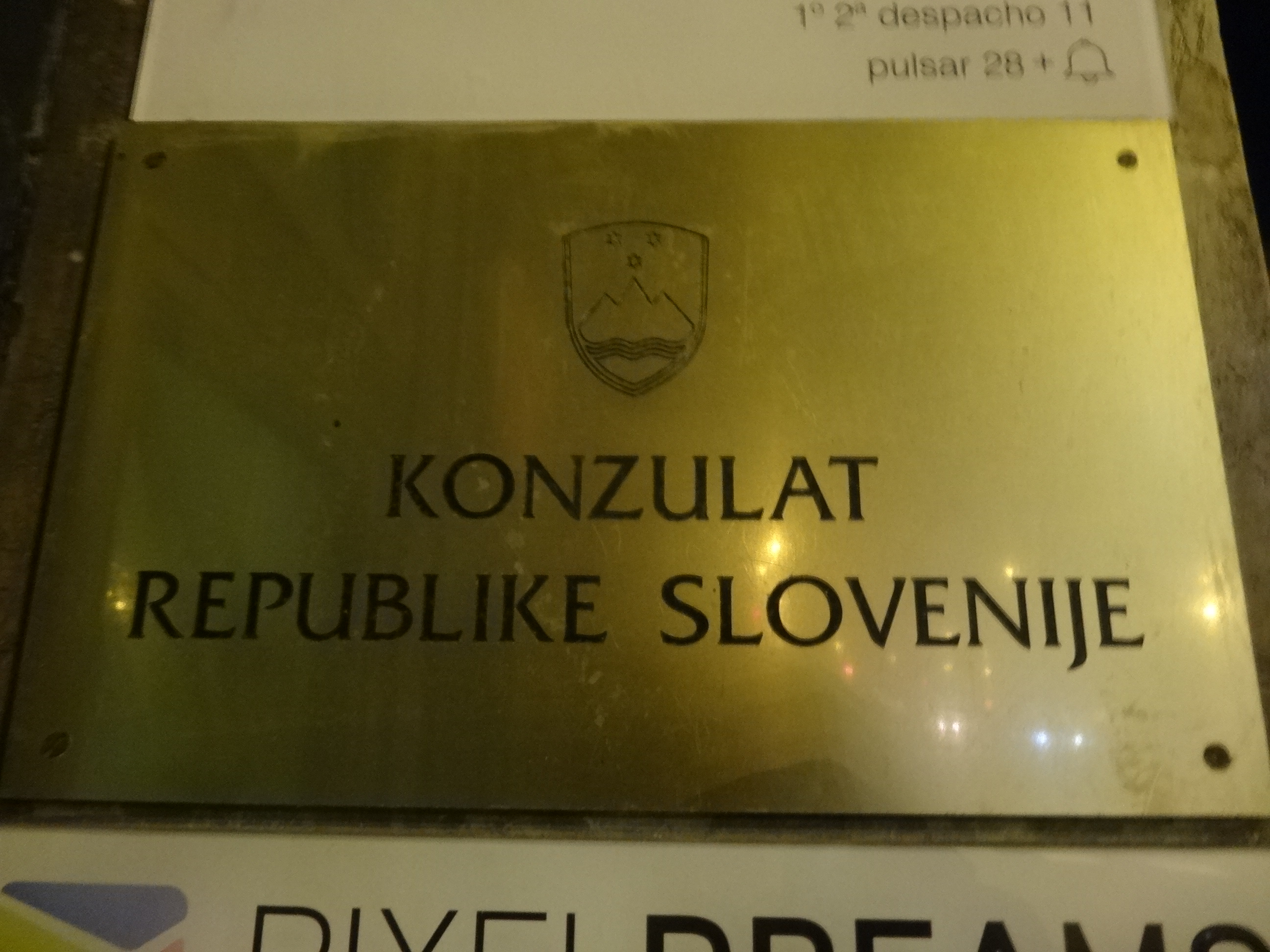 Consulate of Slovenia. Via Augusta, 120, Barcelona